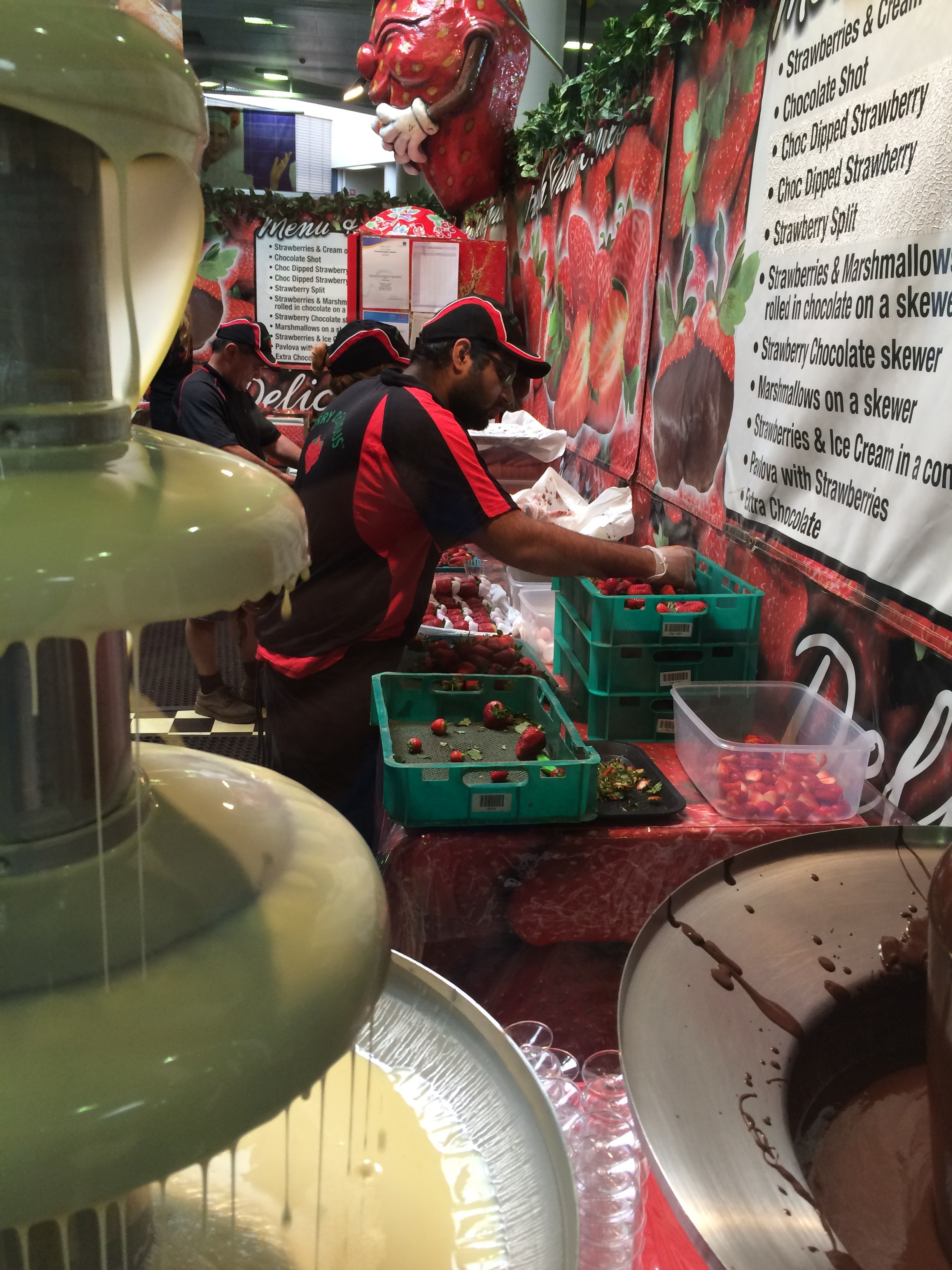 Strawberries dipped in chocolate, Ekka, Brisbane, 2015